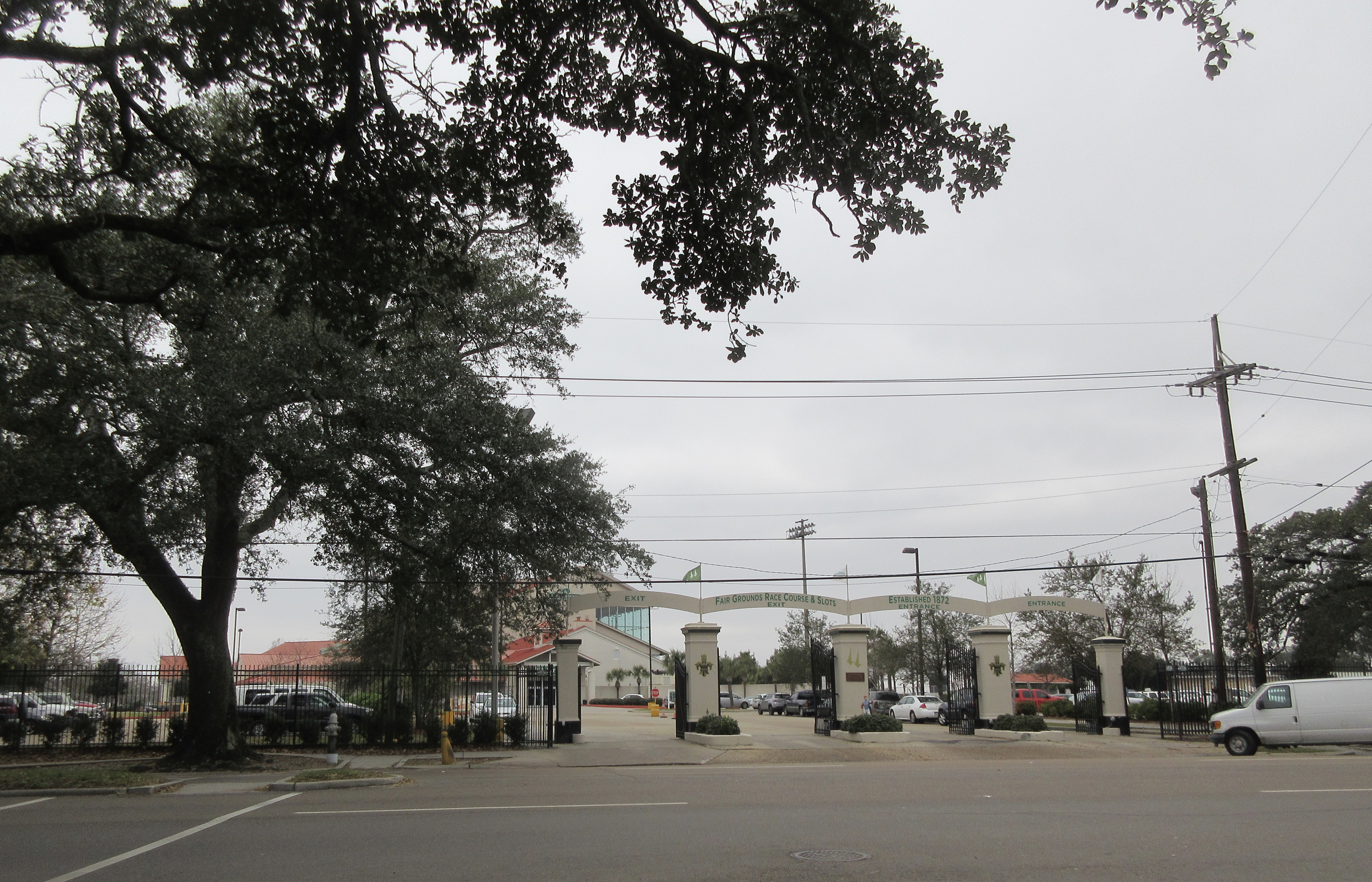 Onzaga Street Entrance New Orleans Fairgrounds